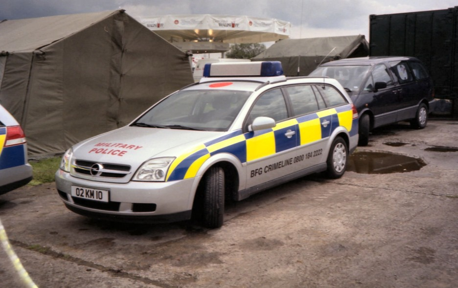 An Opel Vectra used by the Royal Military Police (British Forces Germany) Seen here at the Rhine Army Summer Show (RASS)